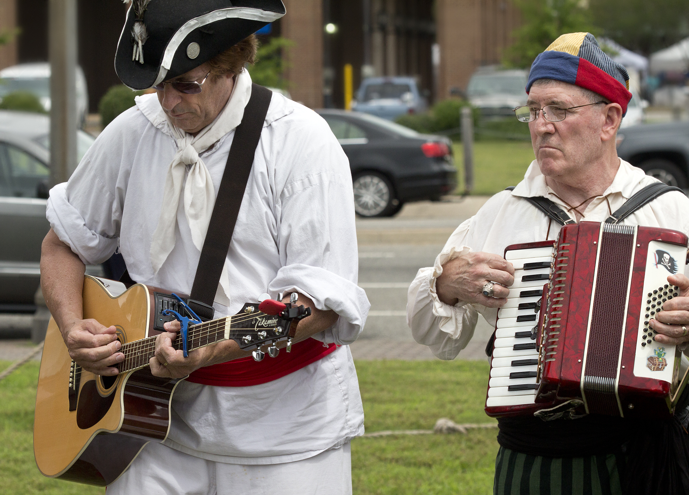 2016 blackbeard pirate festival. Hampton, Virginia